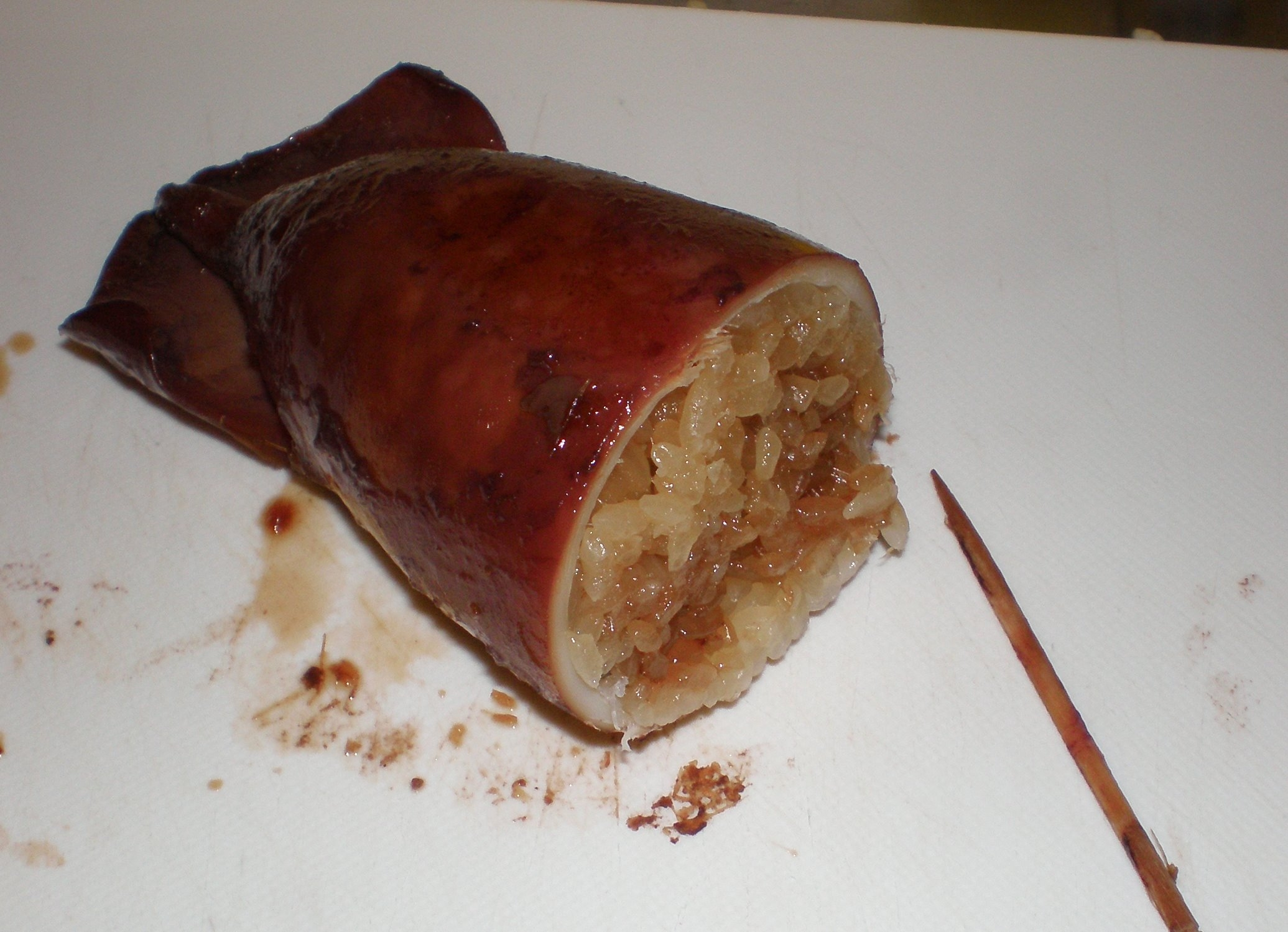 Ika-meshi (Squid boiled with rice).